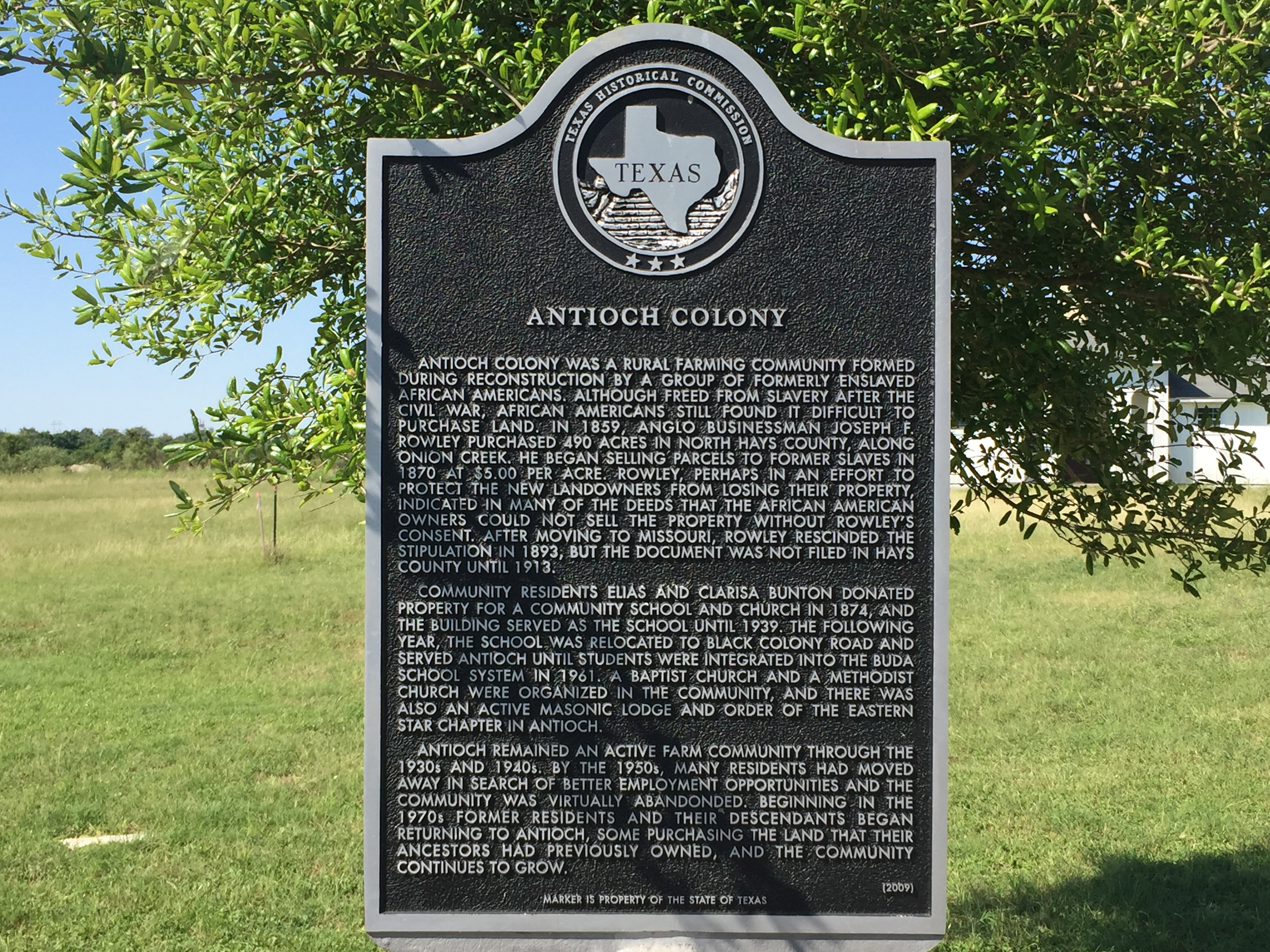 This historical marker was placed in 2011 by the Texas Historical Commission at the original location of the Antioch Colony school.